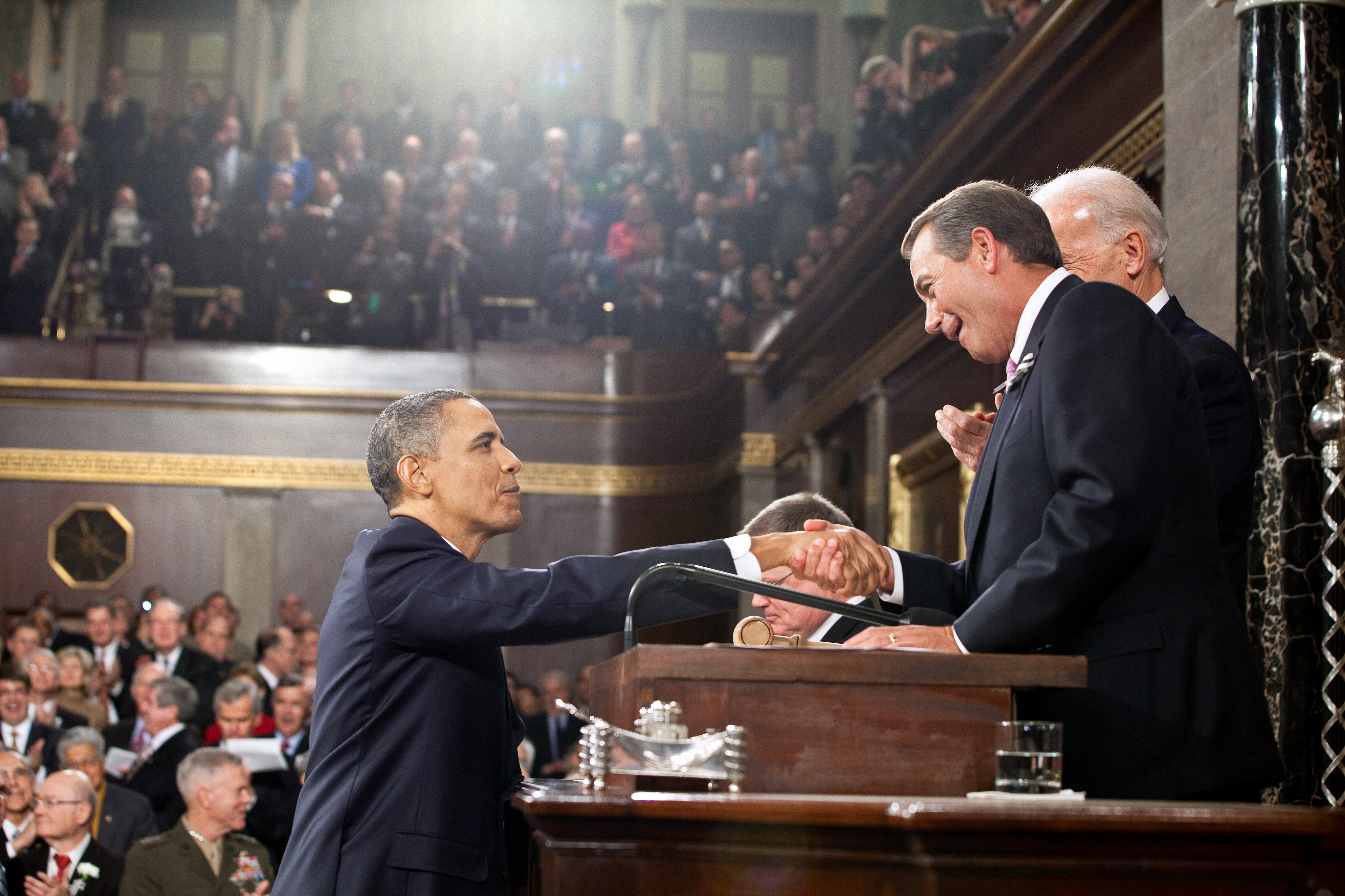 U.S. President Barack Obama is greeted by Speaker of the House John Boehner before delivering the 2011 State of the Union Address.